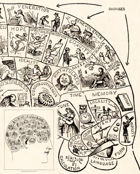 Phrenological diagram cropped to show "organs" at top and front of head, with inset of original and added arrows indicating areas supposed by 19th-Century phrenologists to have been damaged in the case of Phineas Gage